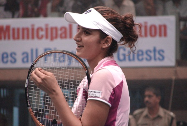 This photo was taken at the Hyderabad Open in 2006.